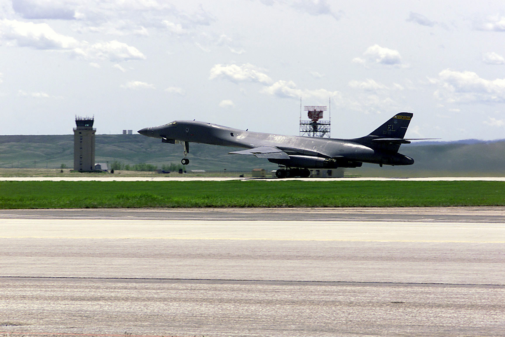 A 37th Bomb Squadron B-1B Lancer takes off during the Operational Readiness Inspection at Ellsworth Air Force Base, South Dakota. Location: ELLSWORTH AIR FORCE BASE, SOUTH DAKOTA (SD) UNITED STATES OF AMERICA (USA)